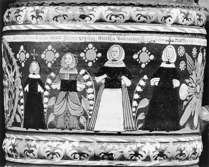 German stoneware tankards were brought to America in large numbers on Dutch fur-trading ships. Shards of these popular vessels have been uncovered at seventeenth century sites in New York and New England.